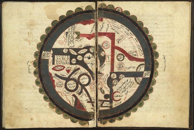 Battle of Guadalete, arab forces of Tariq inb Yiyad and visigothic army under the command king Roderic